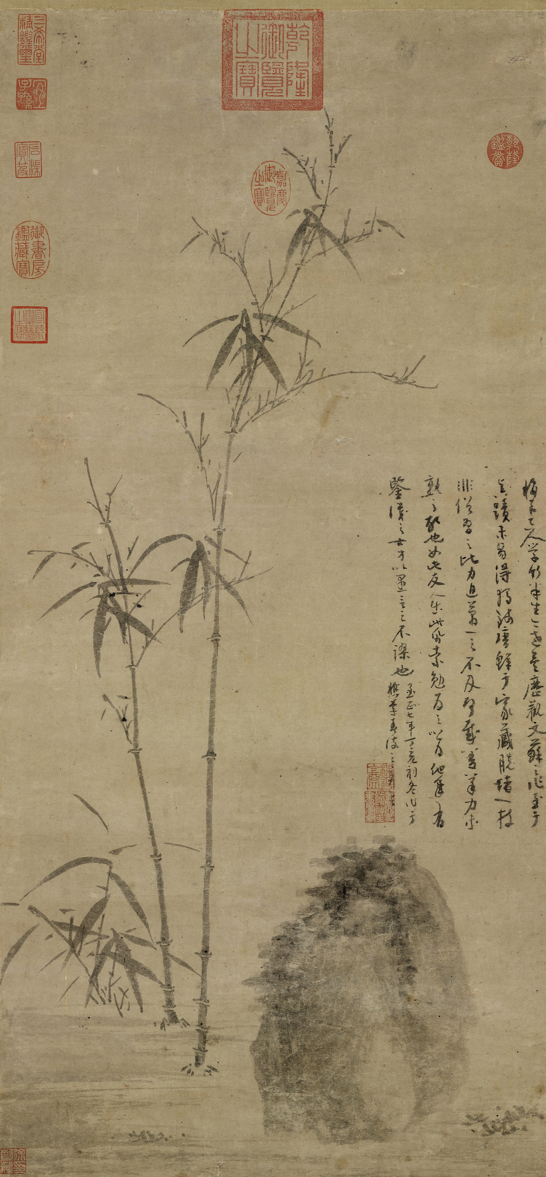 Wu Zhen.Stalks of Bamboo baside a Rock. 90,6x42,5cm.1347._National_Palace_Museum,_Taipei1